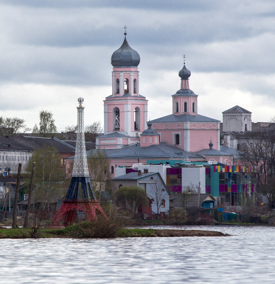 Valday Town Eiffel Tower on the waterfront of the lake (author) Timofey Shoutov